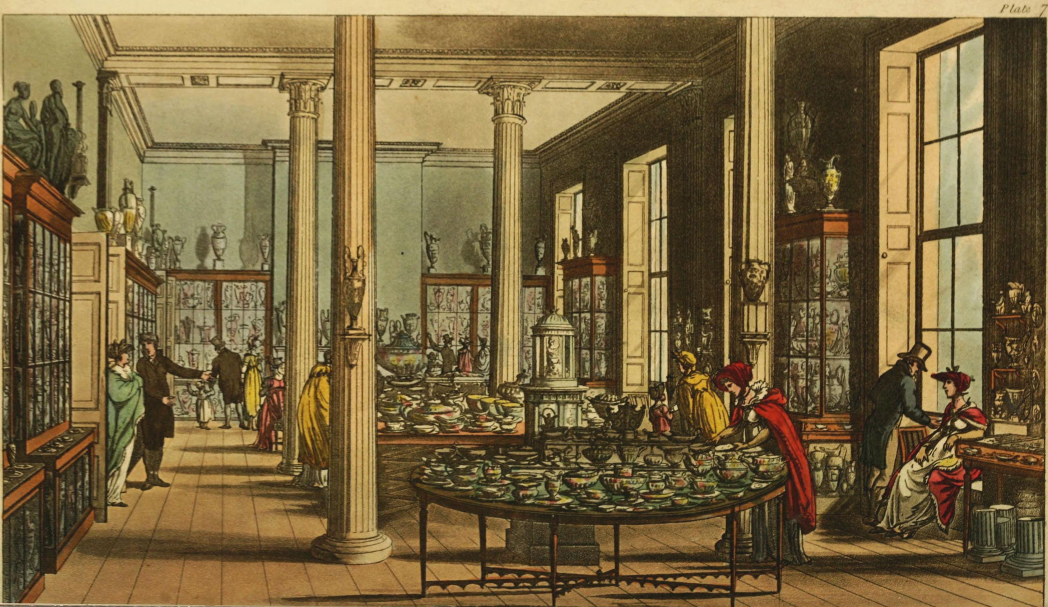 The Wedgewood rooms